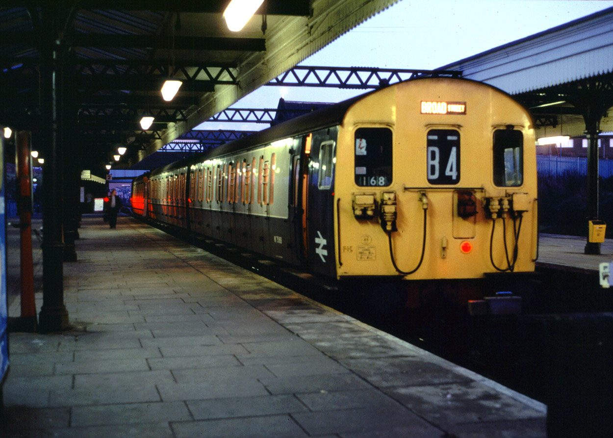 British Railways class 501 EMU heading to Broad Street awaits its departure time in the bay platform at Willesden Junction Low level station.